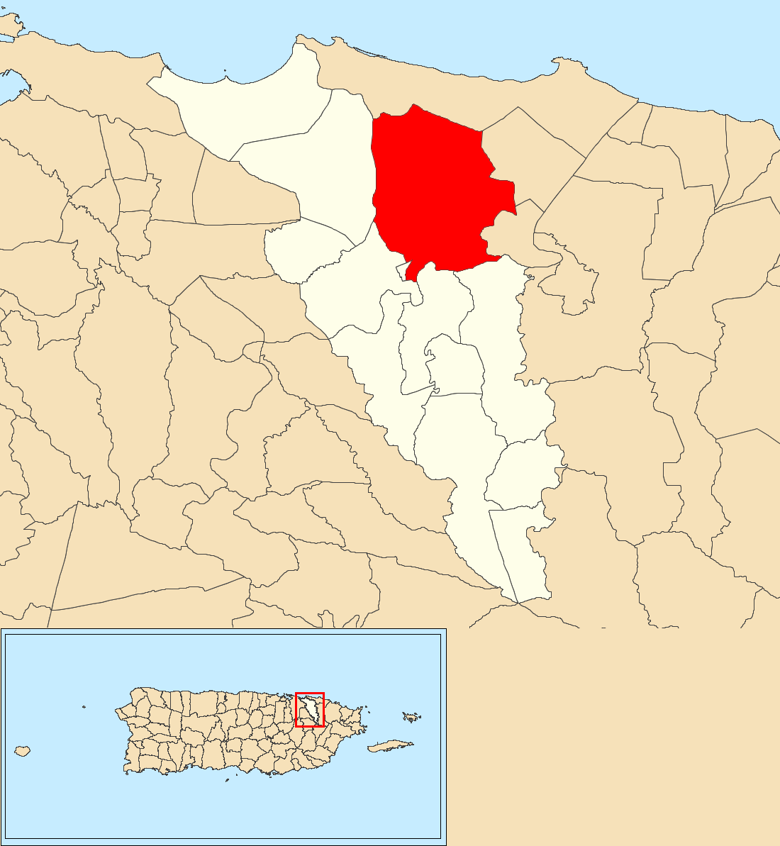 Buena Vista, Carolina, Puerto Rico locator map